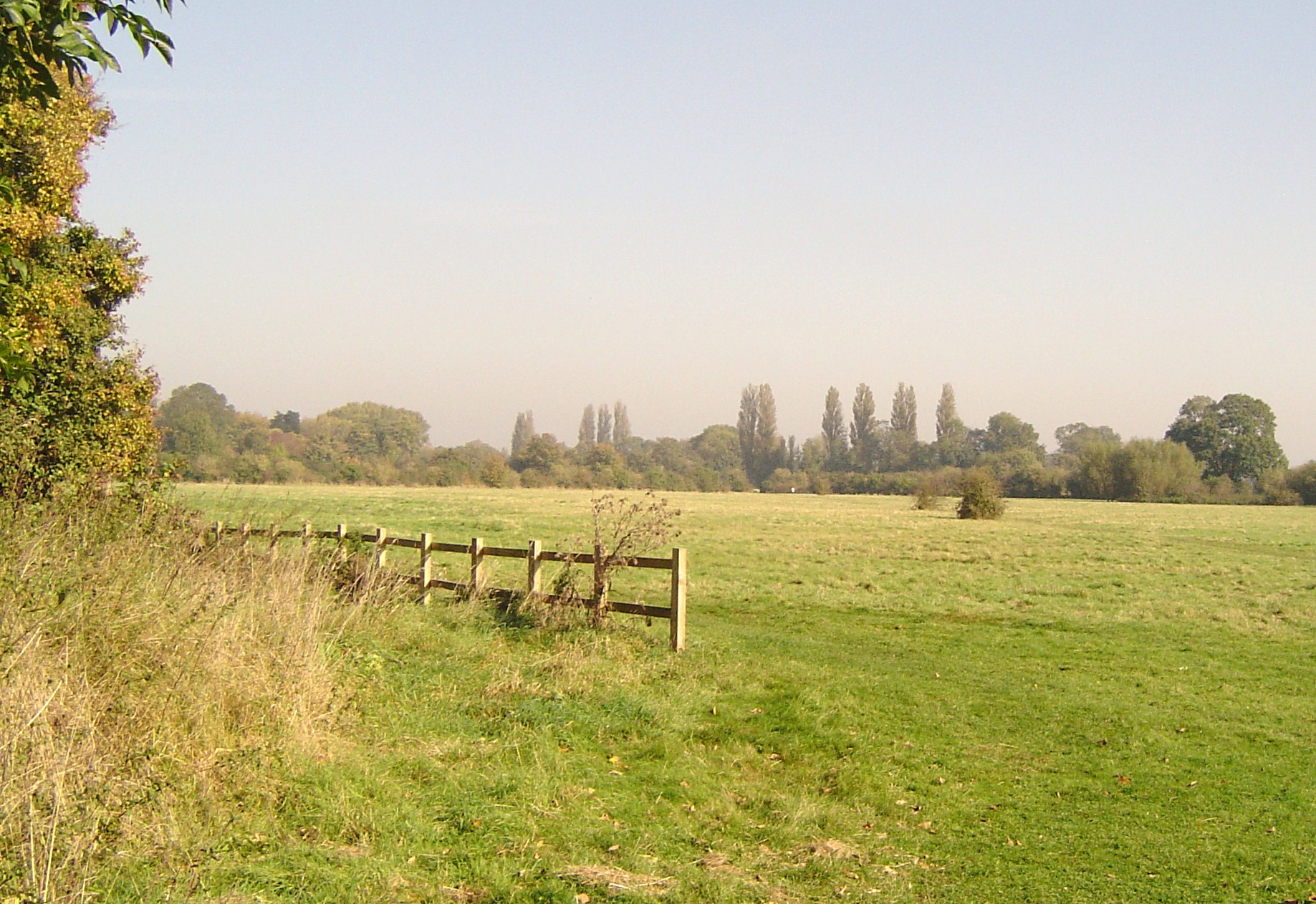 Fields on Desborough Island, River Thames Surrey